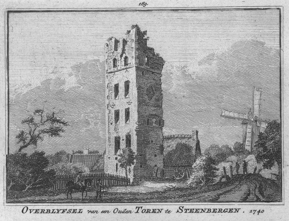 Old Keep near Steenbergen, around 1740.